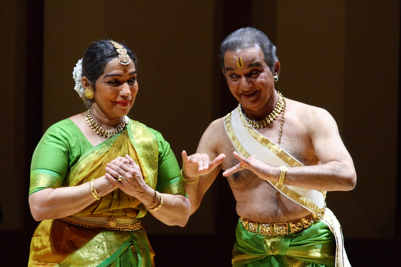 This media file is uploaded with Malayalam loves Wikimedia event - 2.